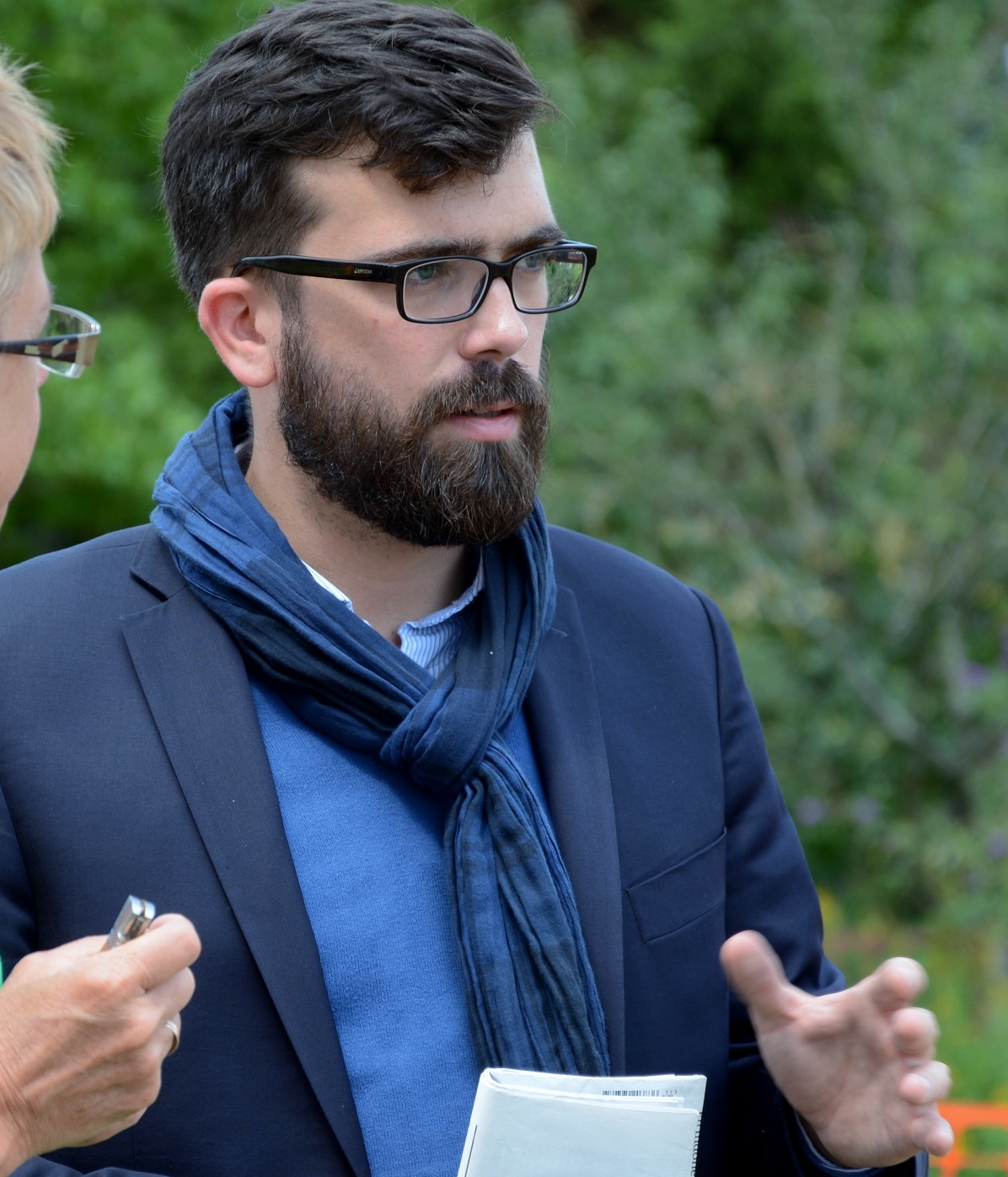 Vincent Chauvet on an archaeological excavation worksite in Autun in 2014